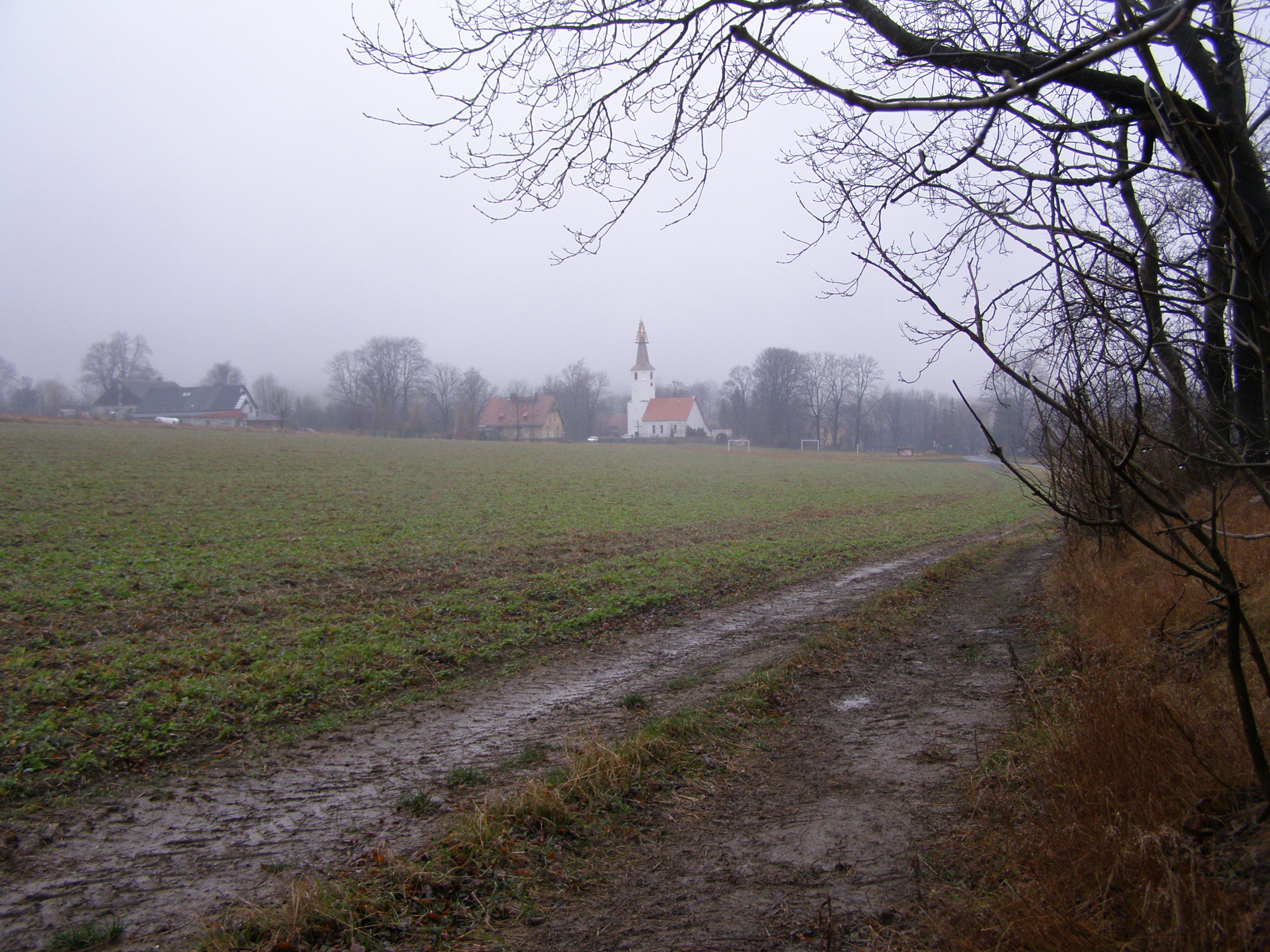 churchpath from Boza Gora to Proszowa